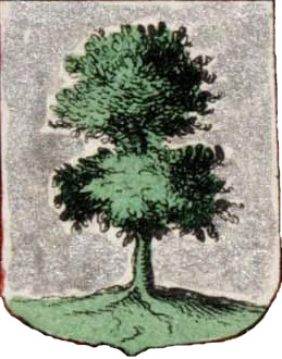 The old coat of arms of Groenlo, The Netherlands, as used in the 17th century.